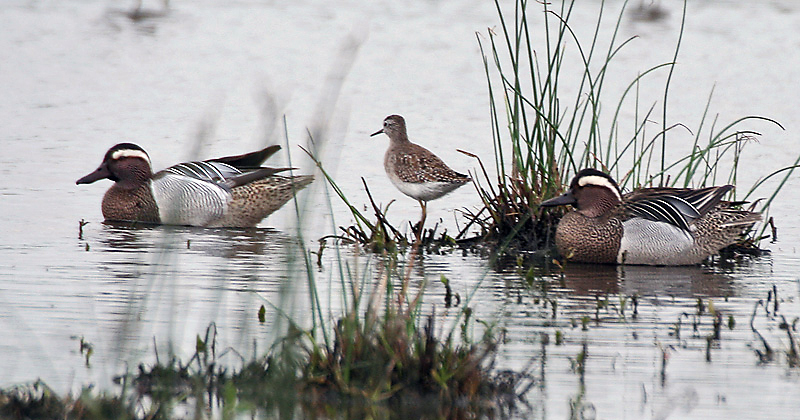 Garganey Anas querquedula at/ near Hodal in Faridabad District of Haryana, India.